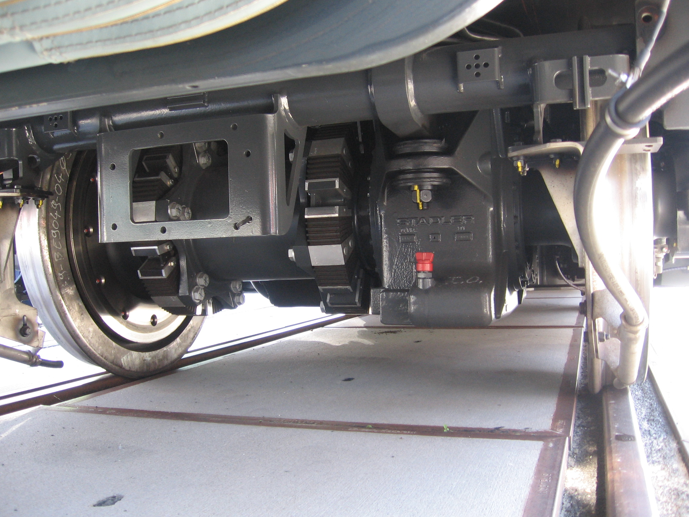 SBB Class RABe 511 - driving bogie.